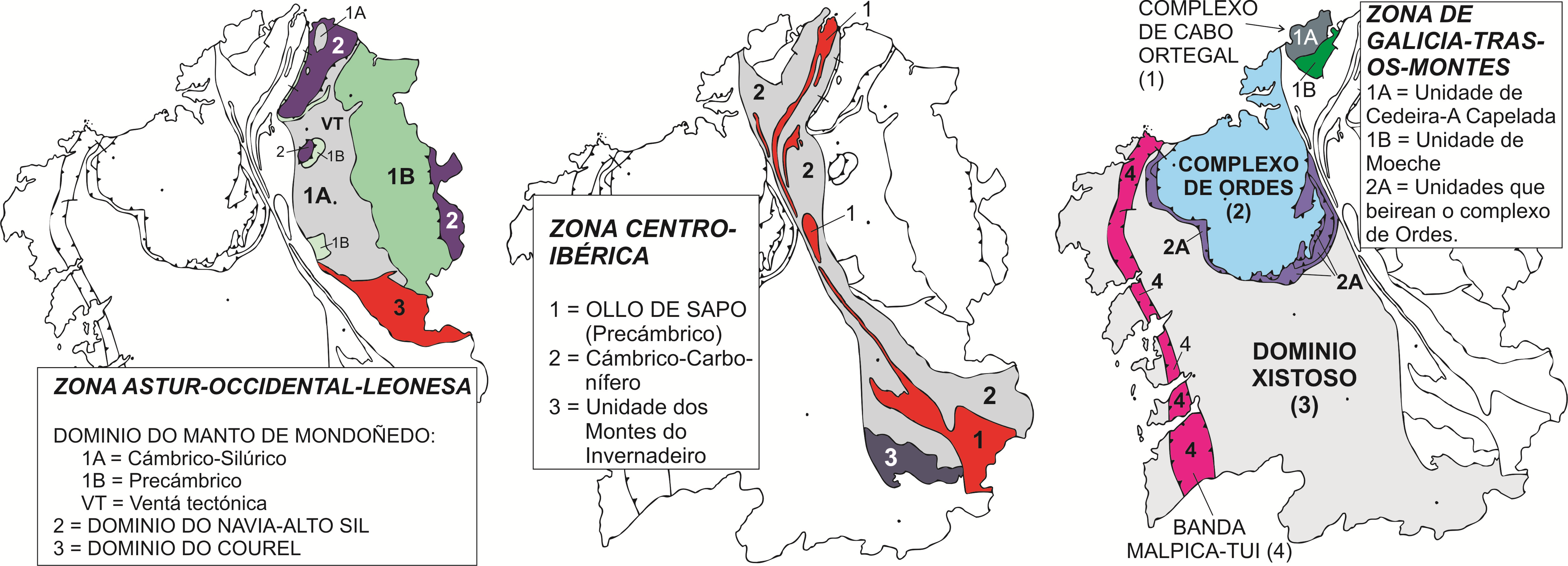 zones of the Hercinian Hesperic or Iberian massif in Galicia